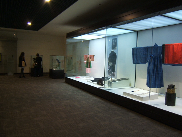 Inside of Sookmyung Women's University Museum.